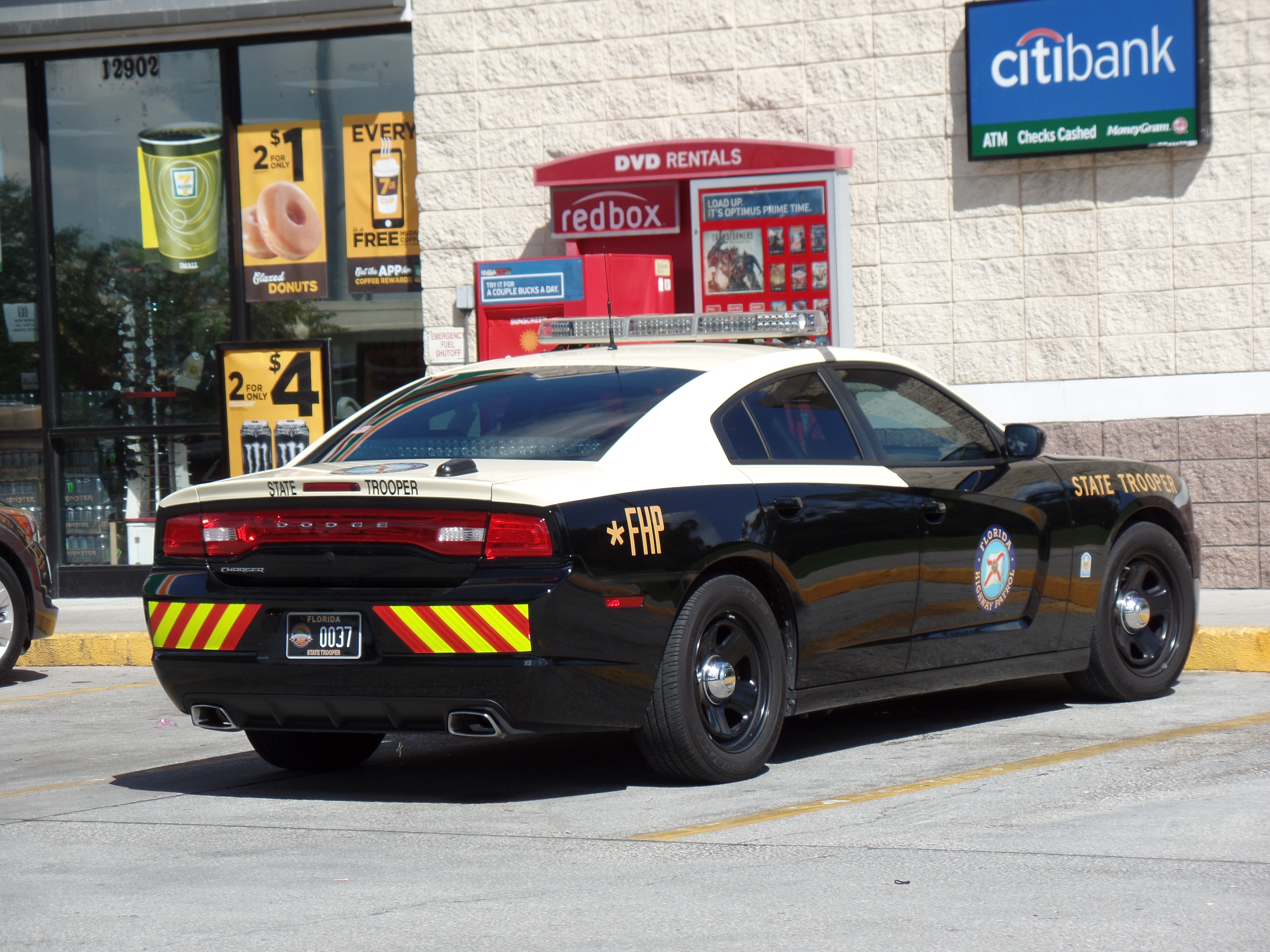 Florida Highway Patrol car I like the red/yellow on the back bumper, because the car is easily seen when parked on the highway when an officer is assisting a motorist. - Rich Menga